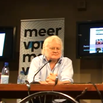 Interview with Redmond O’Hanlon (seen on the left), from the Youtube video "Future Summit The Hague 2010 - my visit" uploaded by user daanbrg. The video has been released as "Licensed with CC-BY-SA 3.0 International." Relates to the 'Meet the Future, Science & Technology Summit 2010' article on the English Wikipedia.